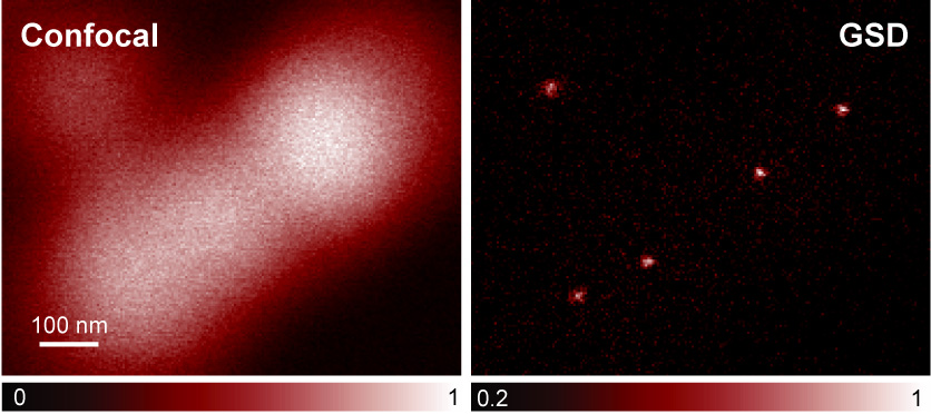 Comparison of resolution between standard confocal and high resolution (GSD) microscopy by imaging stable color centers in nanodiamonds.